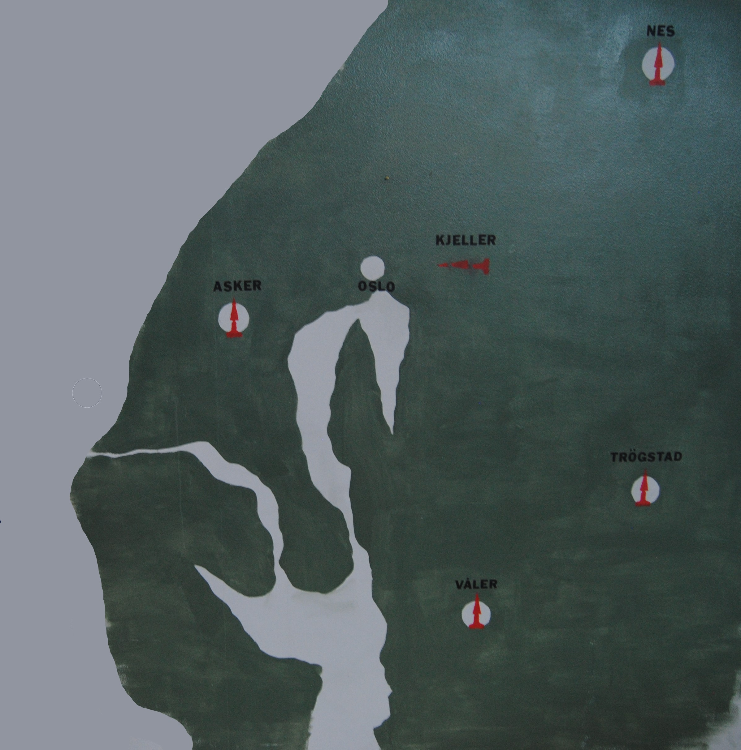 Map over the Norwegian Nike batallion